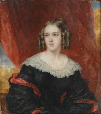 Louise Marie Thérèse of Artois (1819-1864), daughter of Charles Ferdinand d'Artois, Duke of Berry, granddaughter of King Charles X of France, wife of Charles III, Duke of Parma